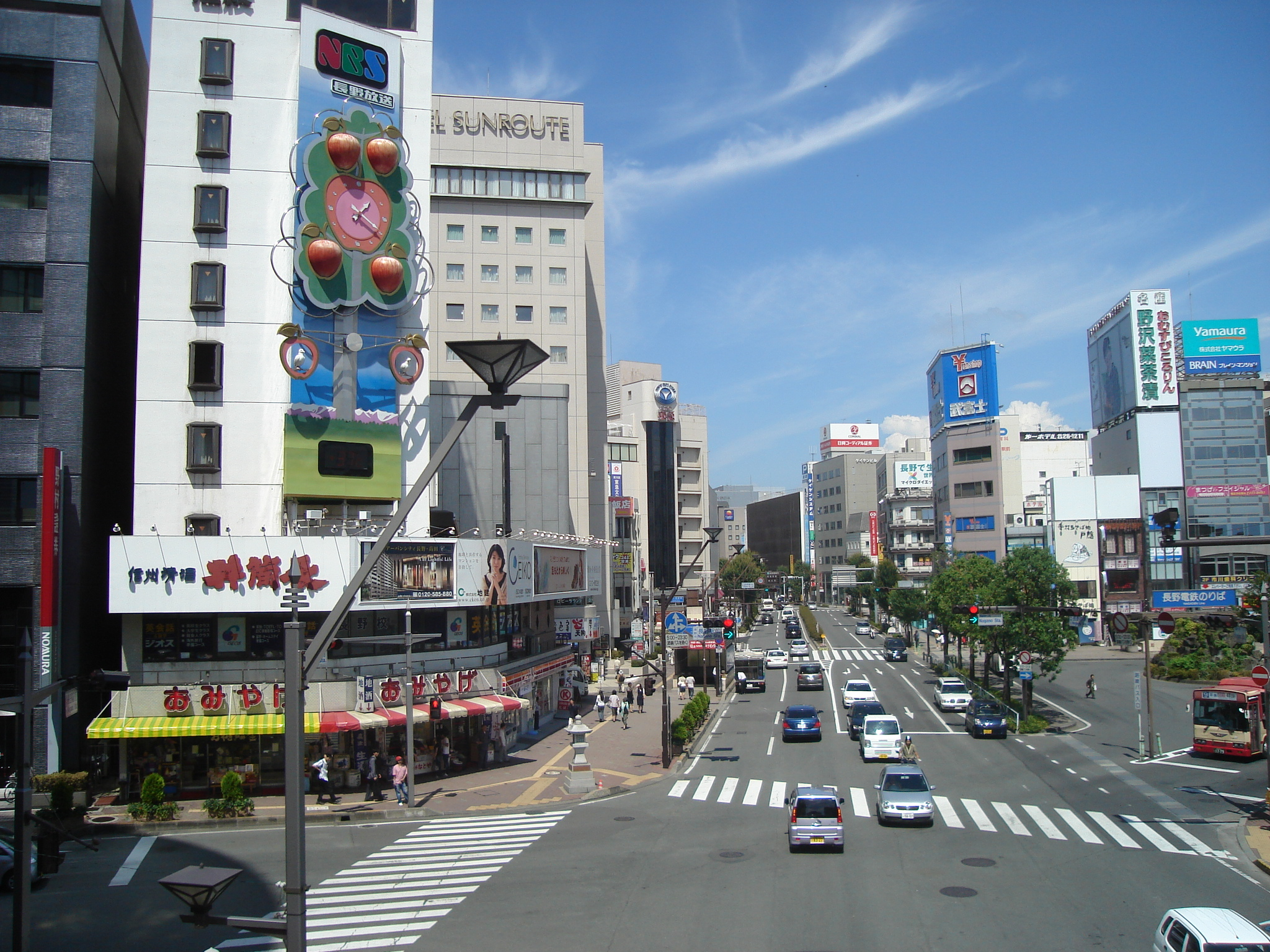 Picture of downtown Nagano, Japan next to Nagano Station